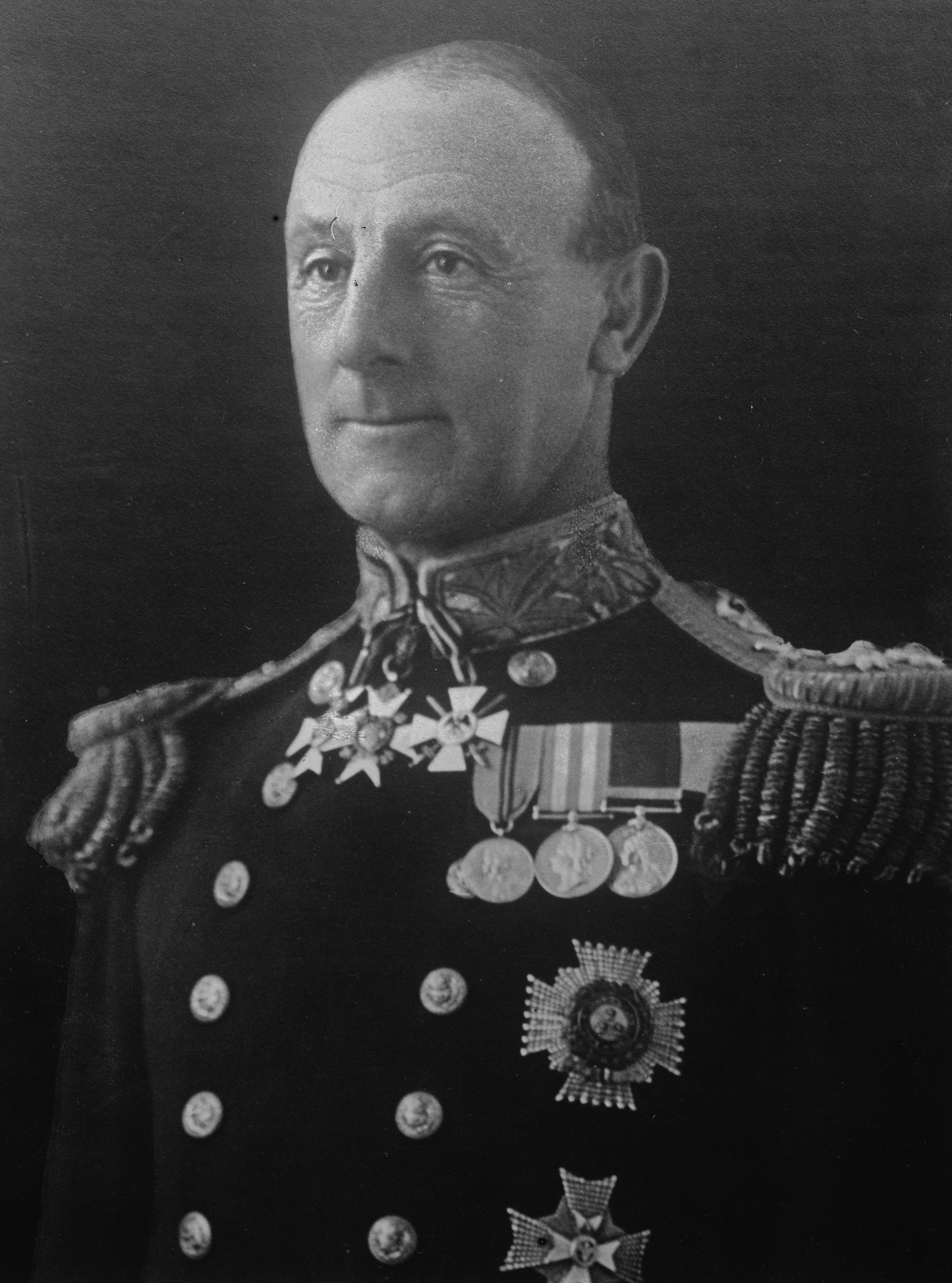 British Admiral John Jellicoe (5 December 1859 – 20 November 1935)